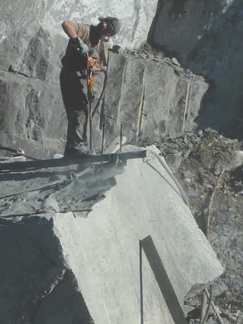 a quarryman drilling holes in preparation of splitting the stone